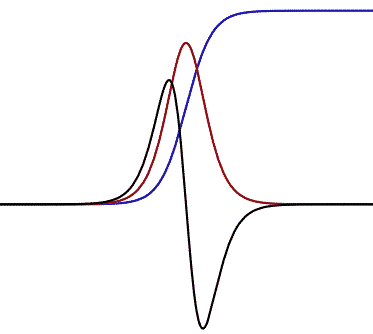 Sketch of the logistic curve and its two first derivatives